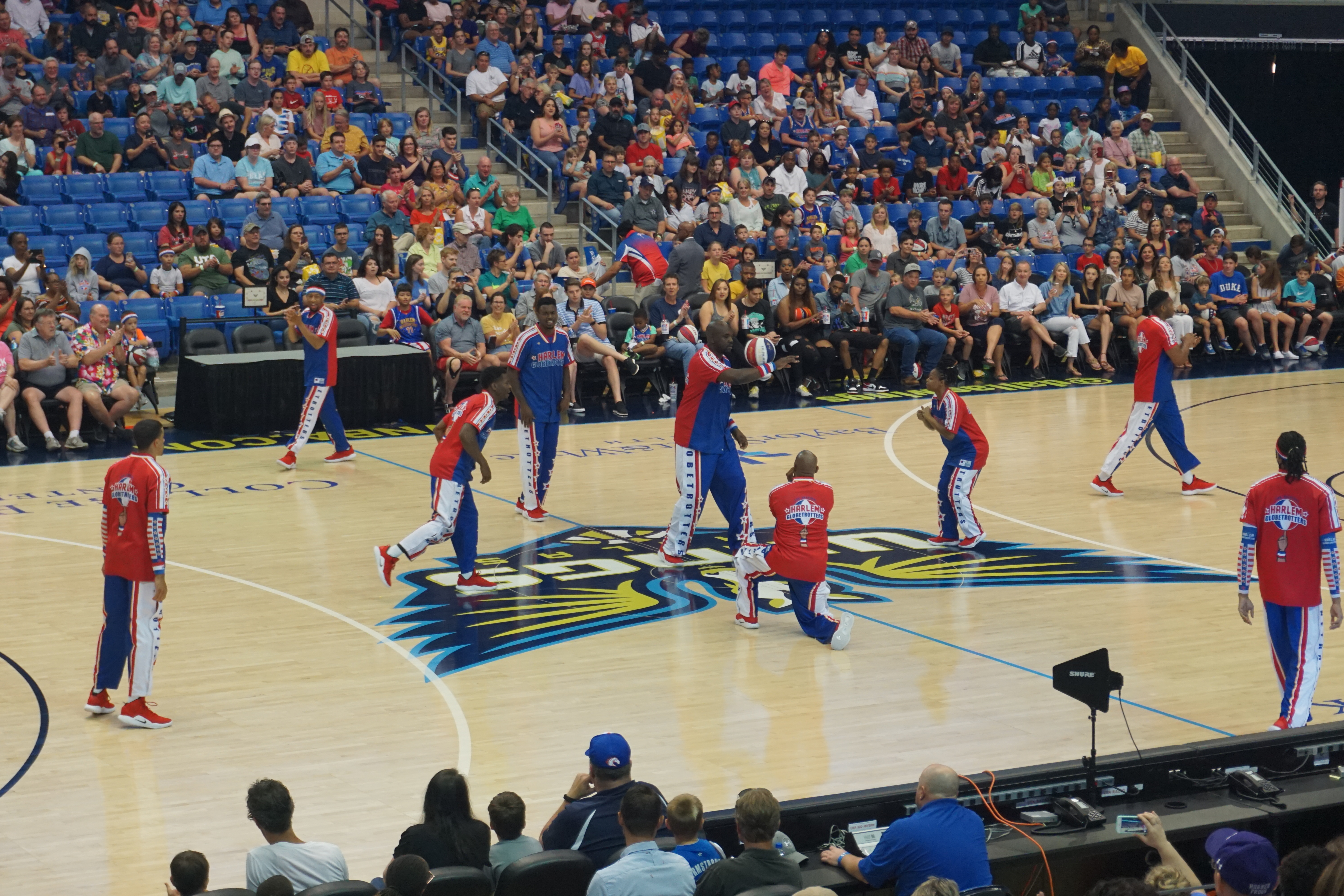 The Globetrotters perform the Magic Circle before the Washington Generals vs. Harlem Globetrotters basketball game at College Park Center in Arlington, Texas (United States).